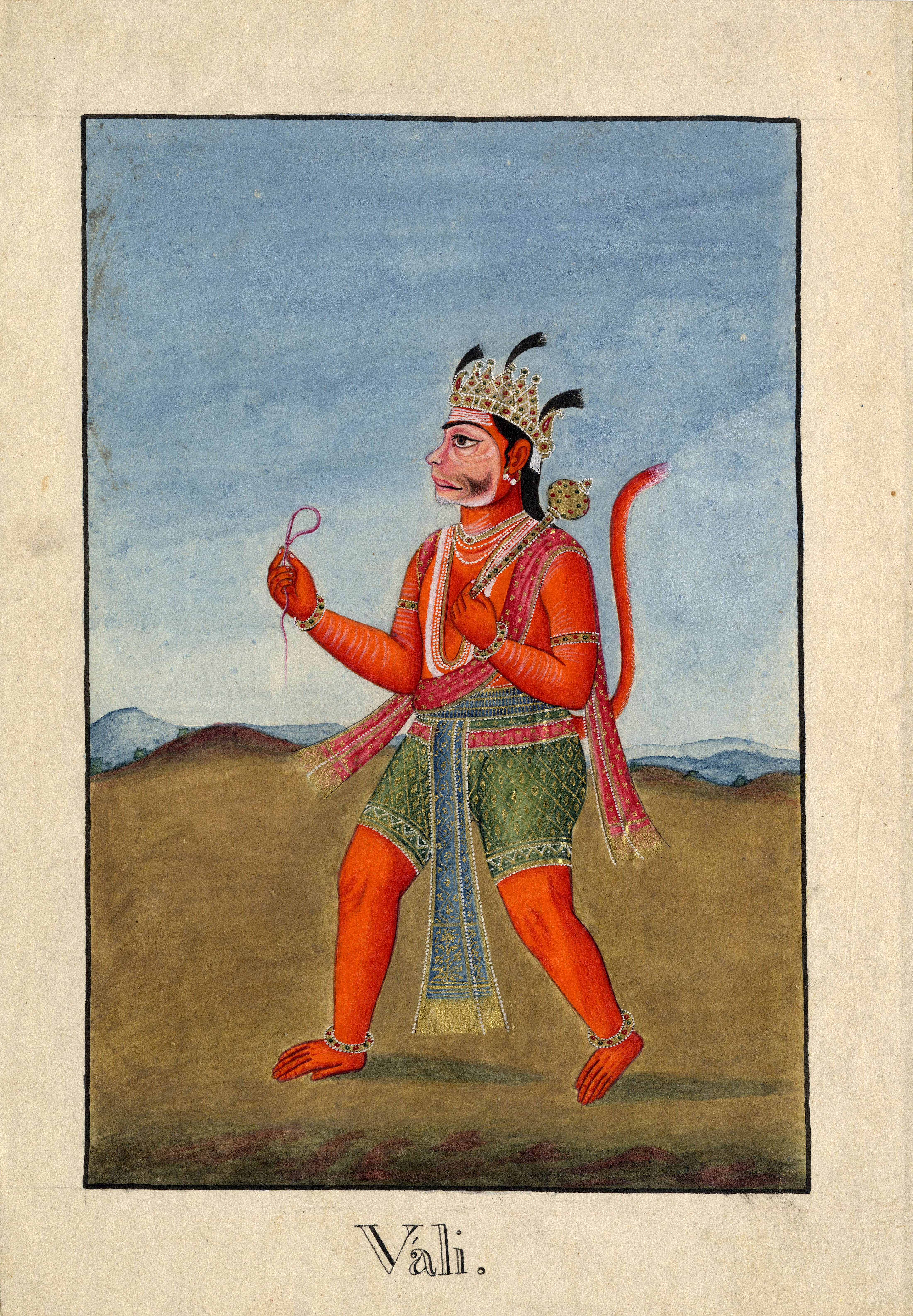 Vali, the Monkey King killed by Rāma. Vali is shown in profile, walking to the left with red skin. He has a golden crown on his head and wears numerous chains around his neck. He holds a mace in his left hand which he rest on his left shoulder and in his right hand he holds a noose. He wears decorated shorts and jewellery on his arms, ankles and ears. In the distance are shown mountains. The painting is surrounded by a black border.